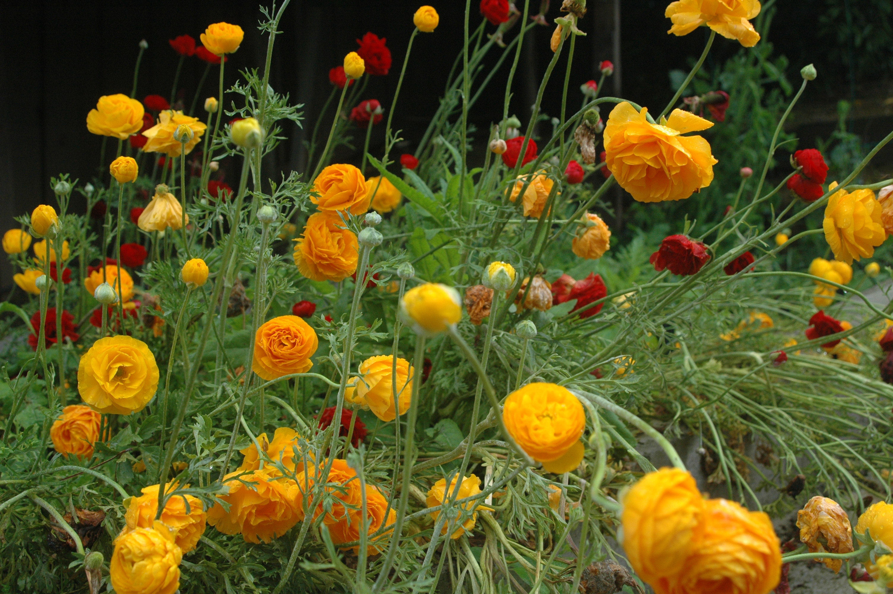 Blossoms during Spring of 2007 in Fremont CA - Foothills of Mission Peak